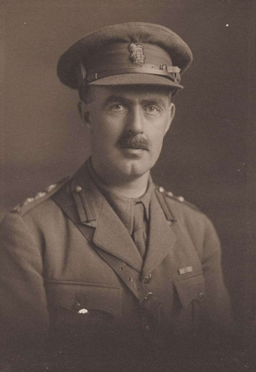 Photograph of Colonel Charles Mackie Begg (1920), Great War medal recipient from New Zealand. Archives New Zealand Reference: AALZ 25044 3 / F1211 15 Part of a series of photographs obtained by the New Zealand National Museum provided by families of New Zealanders who had received a medal during the Great War.